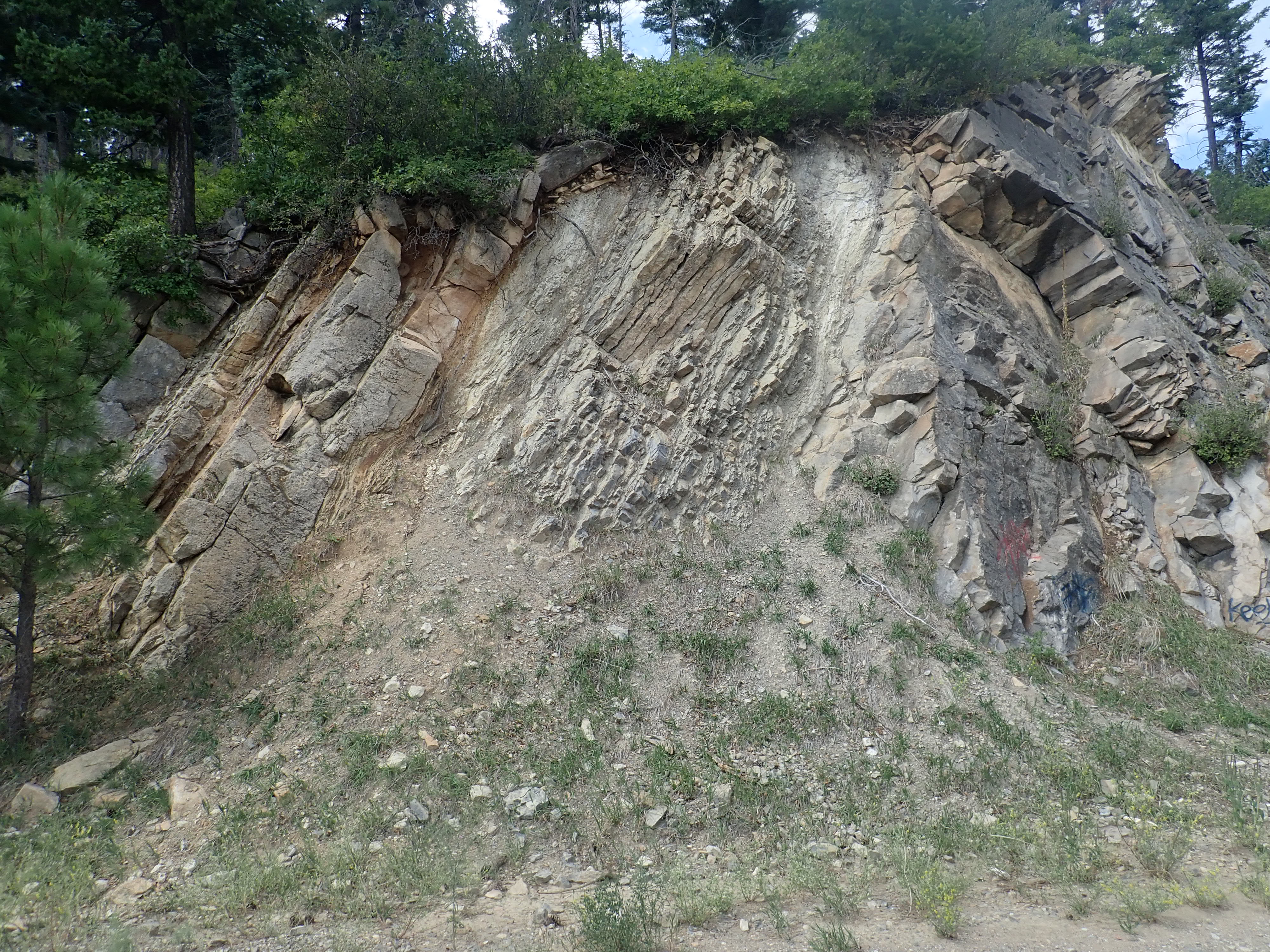 This image shows part of the type section of the Porvenir Formation south of Canovas Canyon, in the Sangre de Cristo Mountains west of Montezuma, New Mexico, USA. The Porvenir Formation is an early to middle Pennsylvanian marine clastic formation.